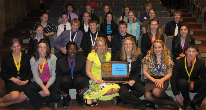 MCC High School Speech Team takes first place at 3A Sections Competition in 2011.